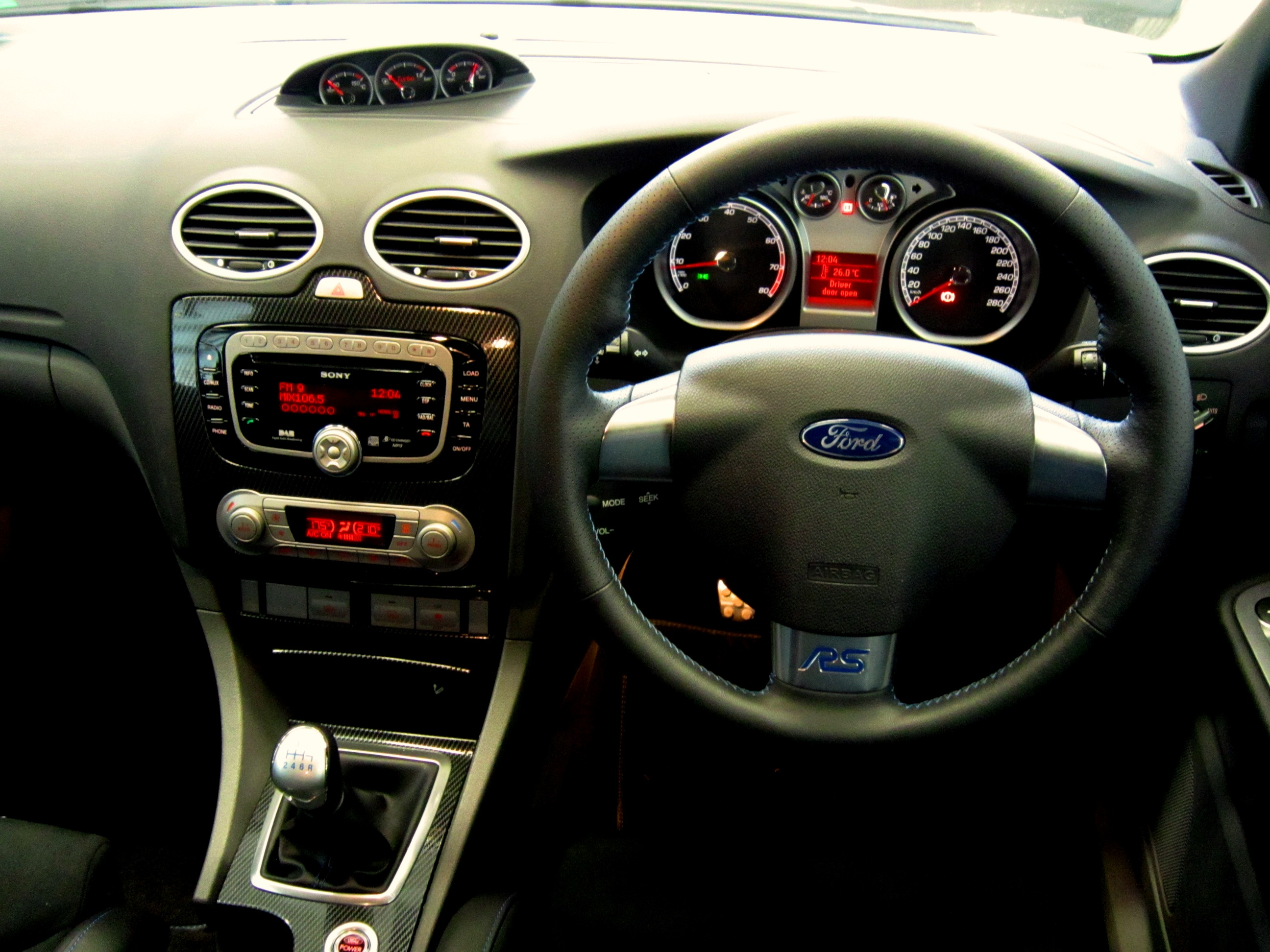 Check out the Three car comparison between the WRX STI, Vw Golf R, and this liitle Hot hatch, the Ford RS Focus; NRMA Drivers Seat.